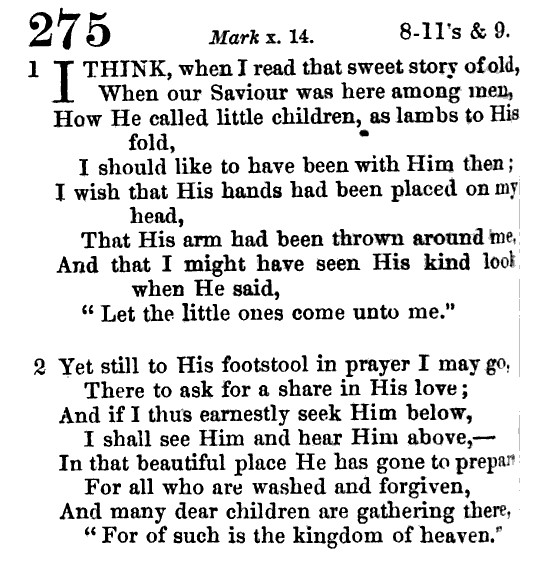 Jemima Luke's famous hymn from the 1858 "Sunday School Hymn Book: Compiled for the Leeds Sunday School Union"